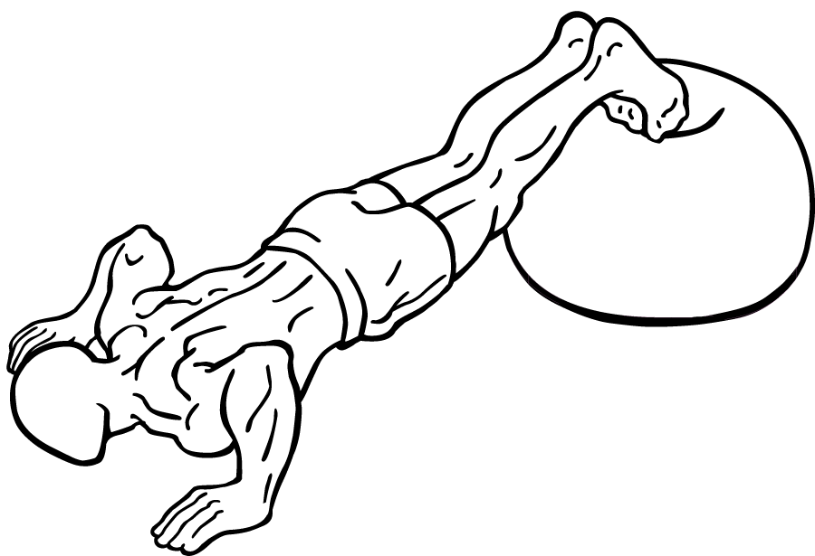 an exercise of chest